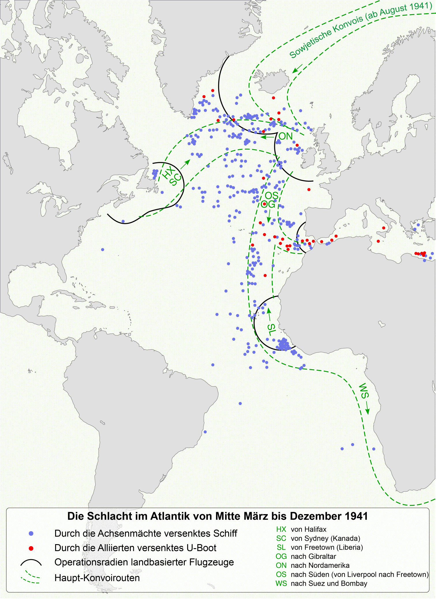 The battle of the Atlantic, mid-march to december 1941. In the latter part of April, sweeps and searches replaced close escort. In May 1941 these extends 350 miles from Iceland and North Ireland. Operations from West African bases began on 24 March 1941. Hudsons and Catalinas operated from Gibraltar up to 250 miles. *Mercator projection; geodetic system WGS84 *Coordinates : 73.5 N, -56.5 S, 30 E, -100 W